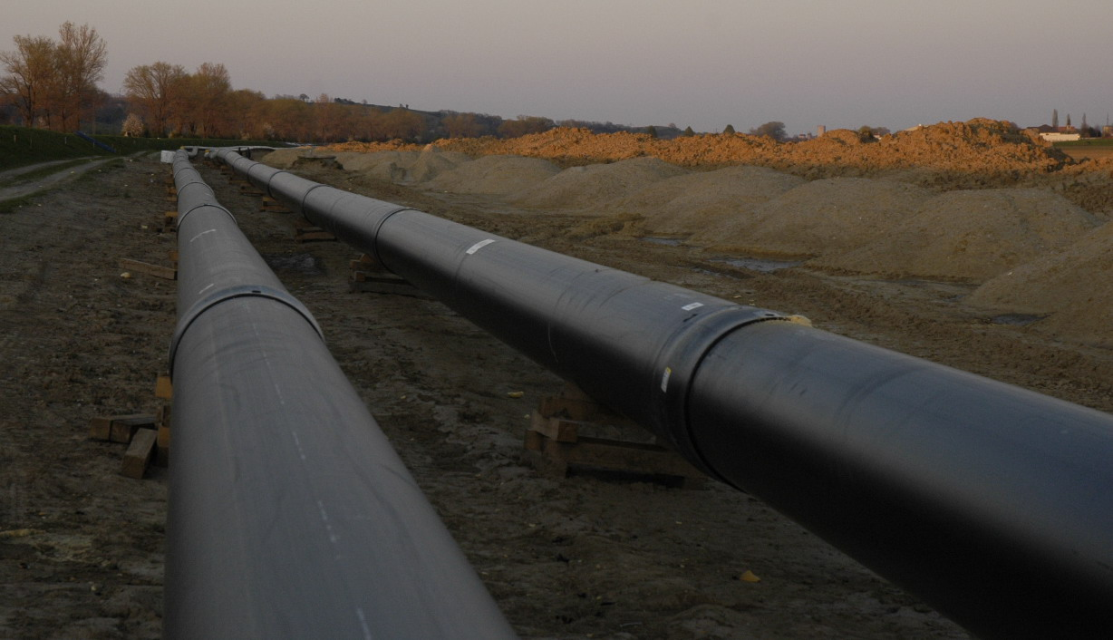 District heating pipeline DN 400, 31 km, from Dürnrohr to Sankt Pölten built by EVN Wärme from Austria